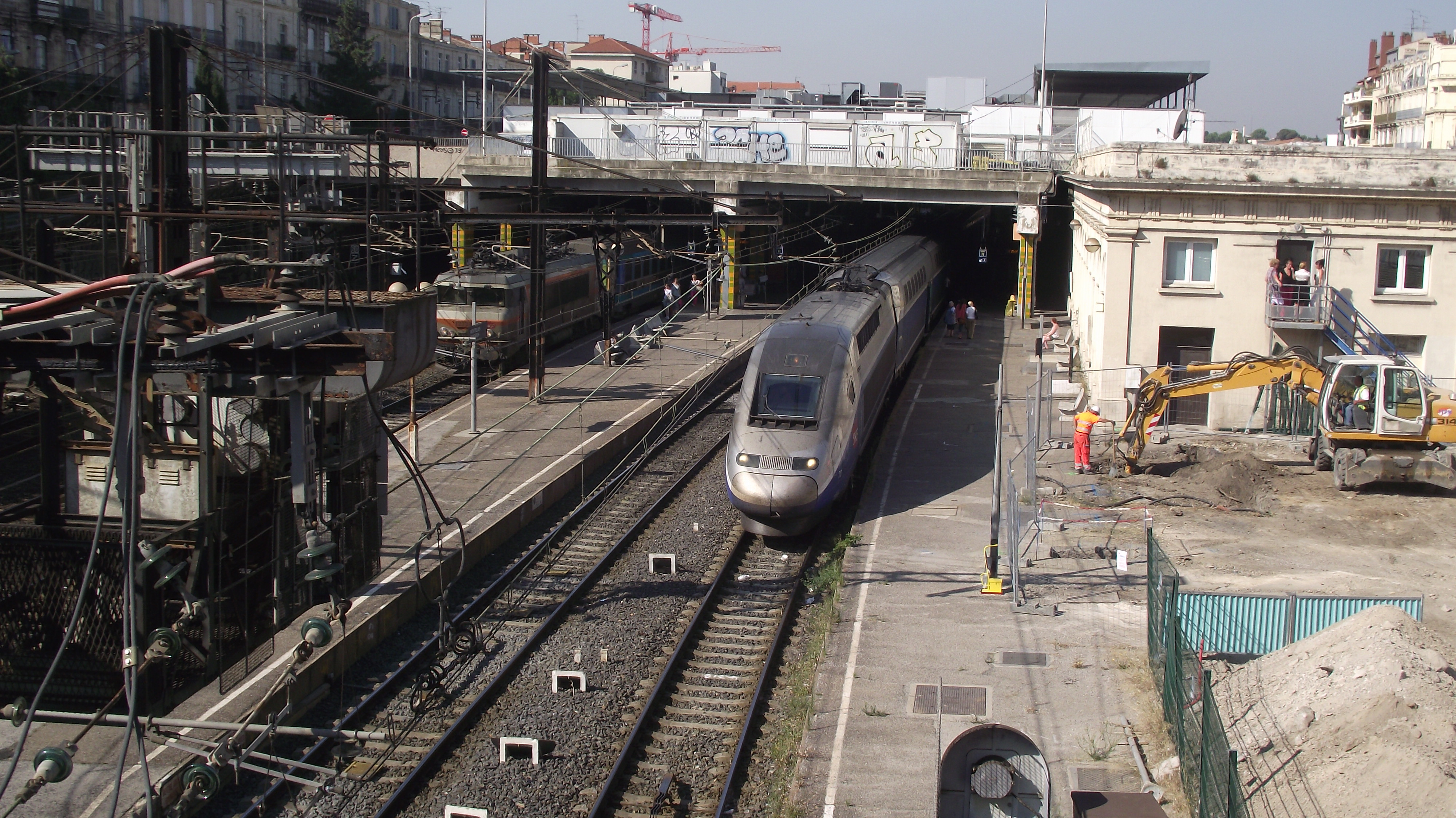 TGV duplex in Gare Montpellier-Saint-Roch